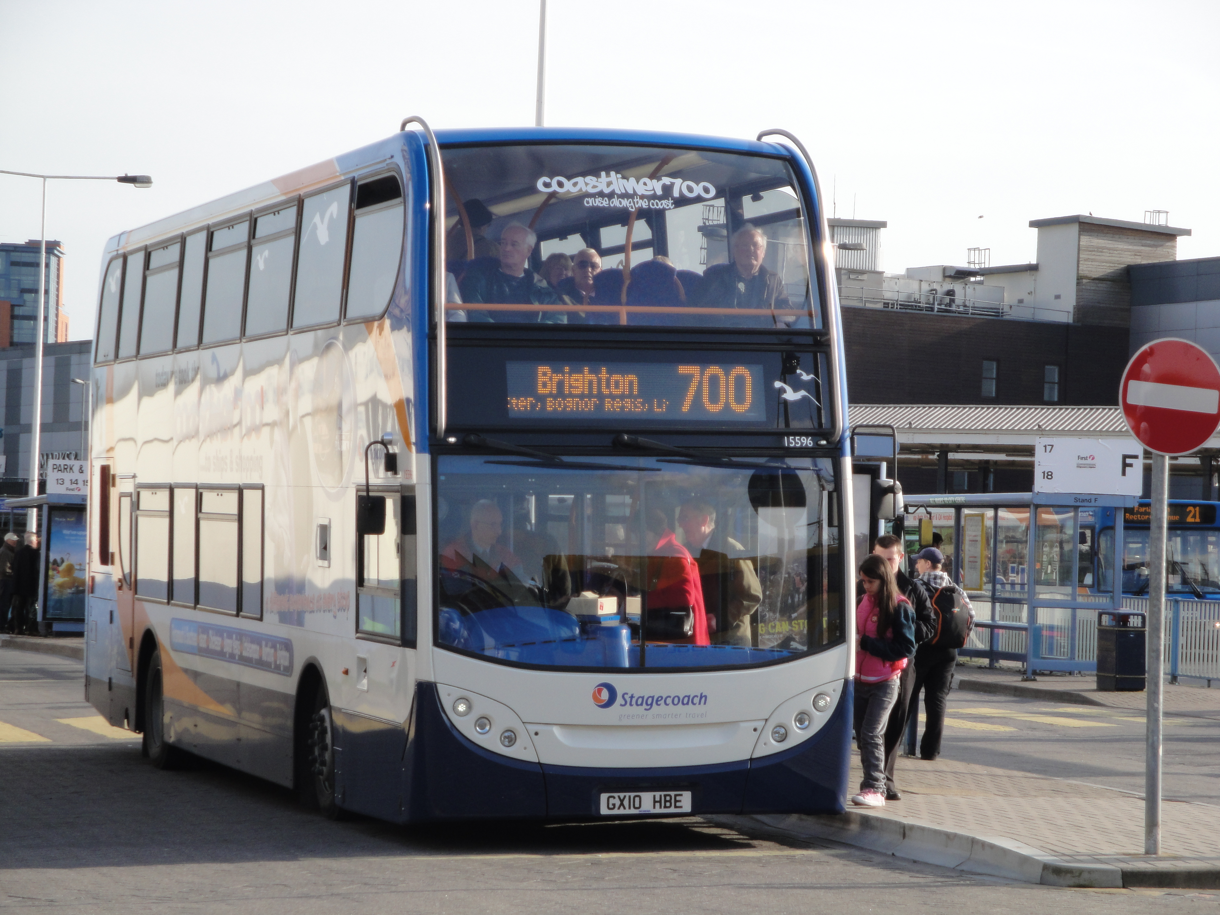 Stagecoach in the South Downs 15596 (GX10 HBE), a Scania N230UD/Alexander Dennis Enviro400 in The Hard Interchange, Portsmouth, Hampshire on route 700.